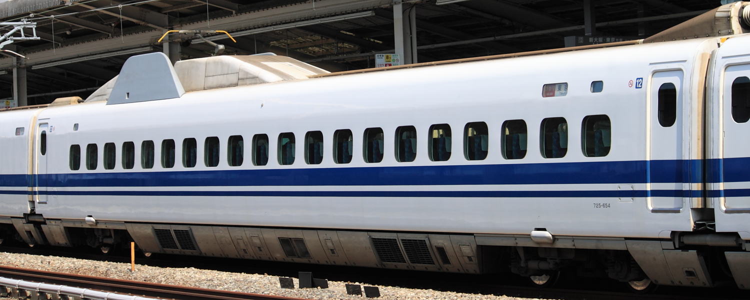 Shinkansen Series 700(725-654) in Nishi-Akashi Station